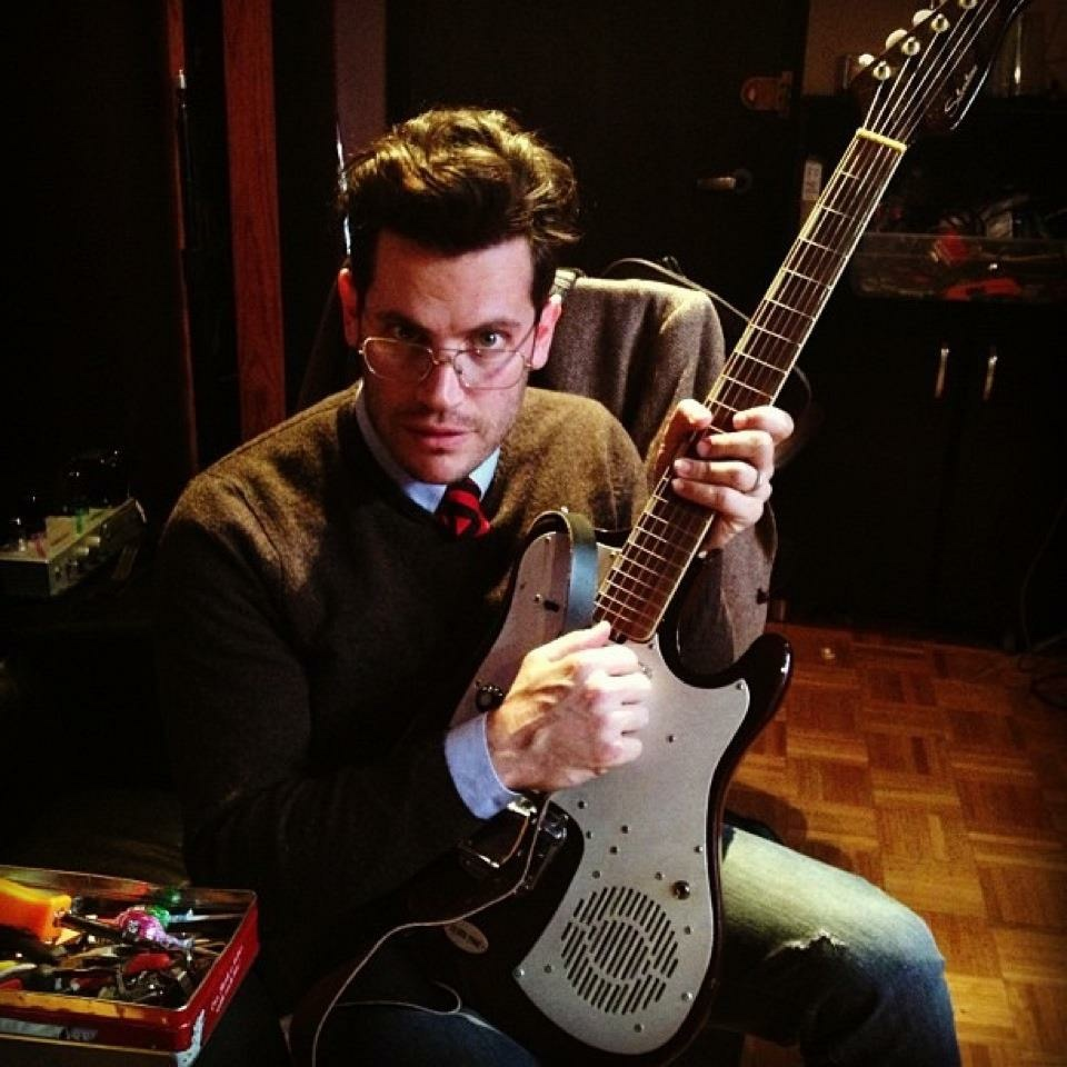 Josh Joplin In Studio With Guitar at Recording Session At Mercy Sound in New York City.